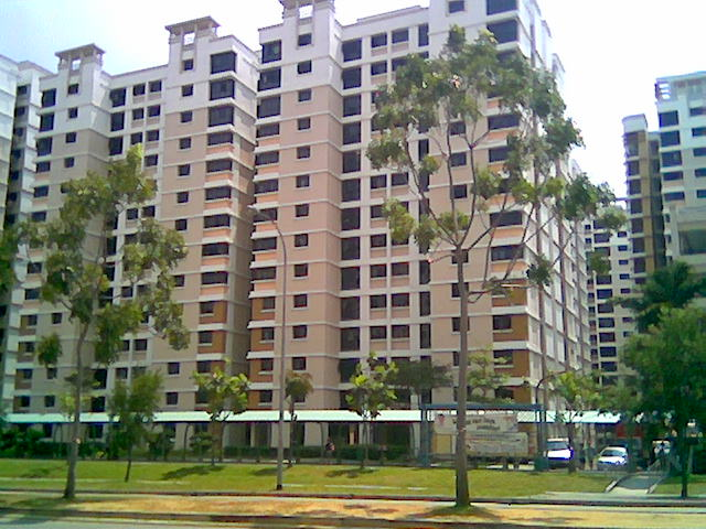 A block of Housing and Development Board flats in Jurong West New Town, Singapore.